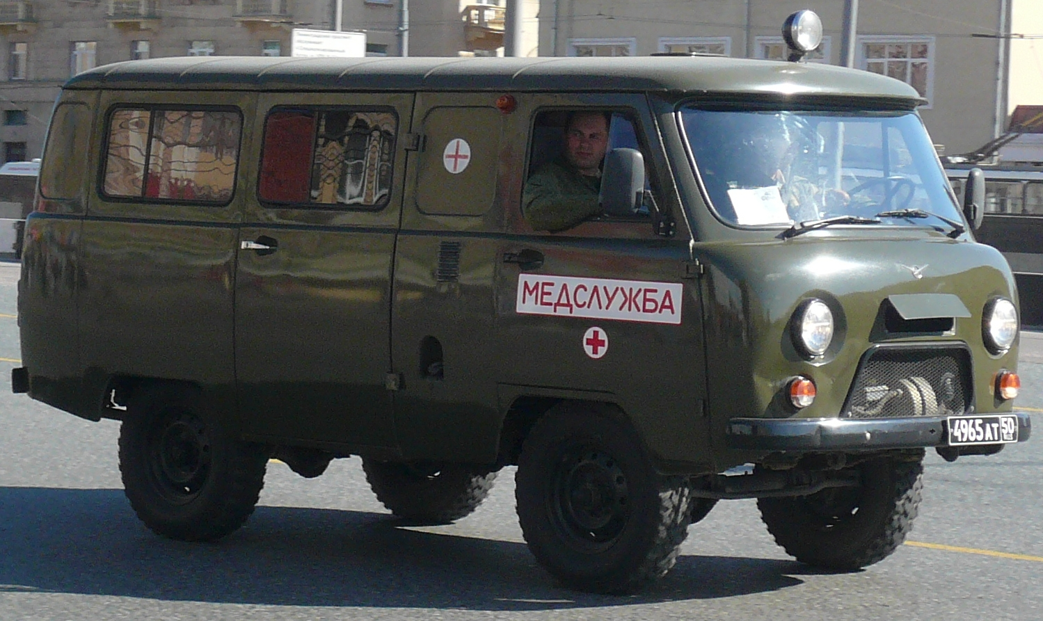 UAZ-452